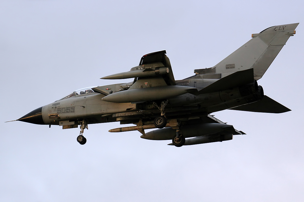 TLP Albacete - Los Llanos (LEAB/ABC) January 2013